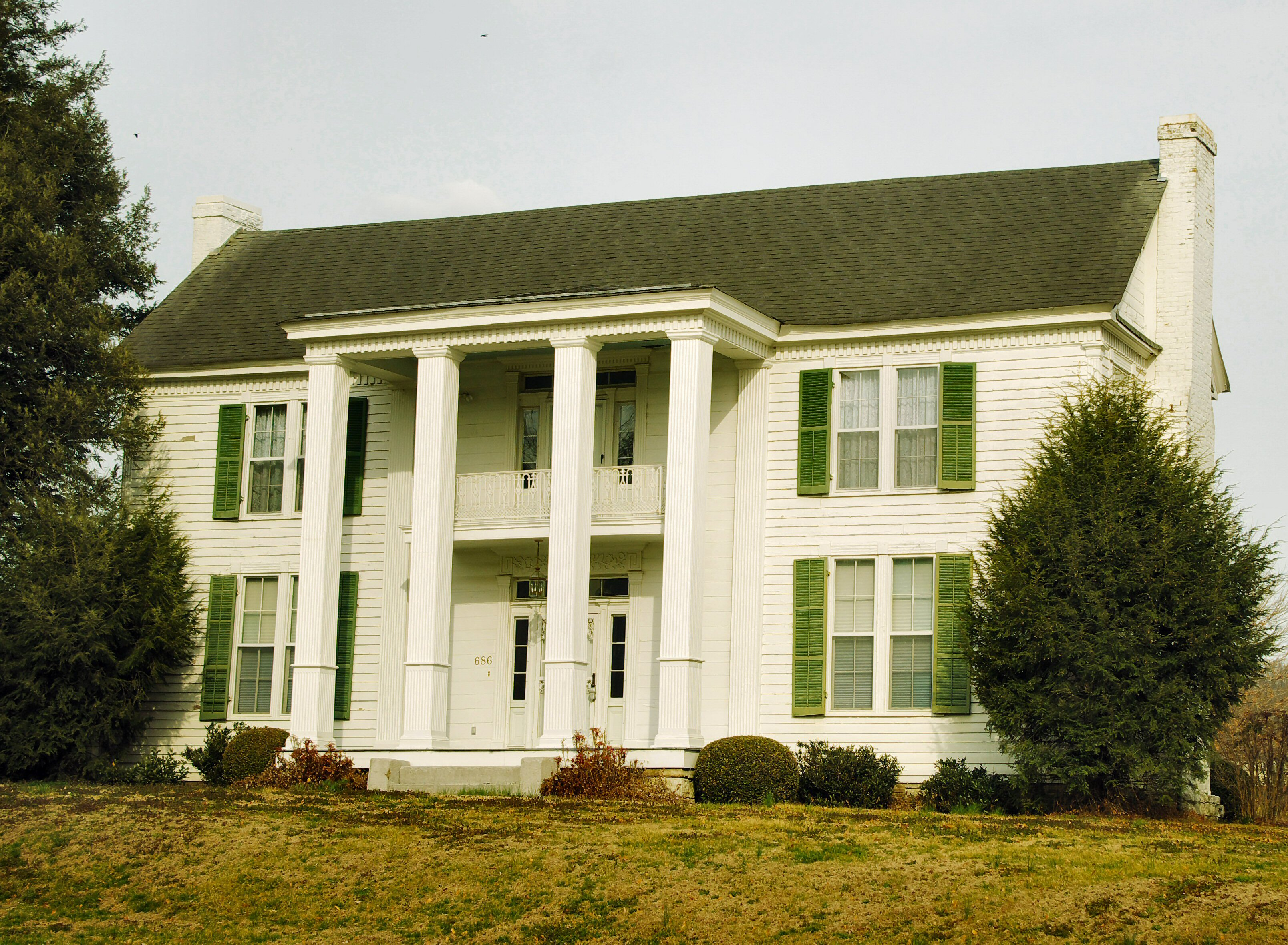 The Green-Evans House near Lynchburg, Tennessee, United States